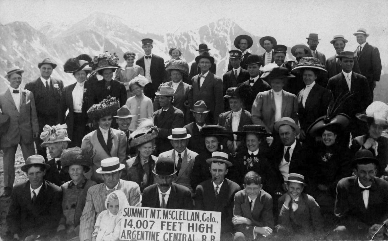 Postcard photo of a group of passengers at the summit of Mount McClellan in Colorado on the Argentine Central Railway.